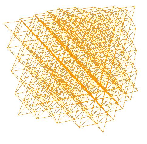 Octet truss